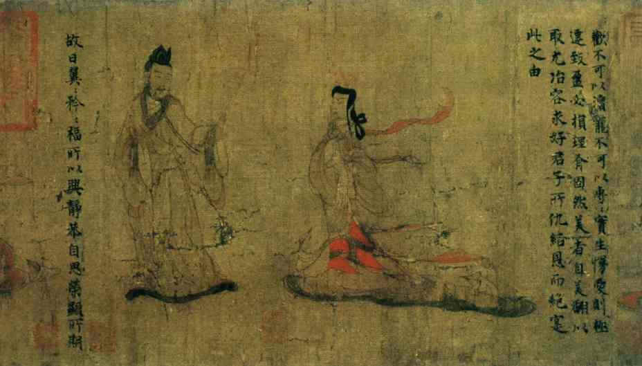 'Palace Lady' detail from 'Admonitions of the Instructress to the Palace Ladies' (女史箴图). Handscroll, ink and color on silk. Also see Barnhart, R. M. et al. (1997). Three thousand years of Chinese painting. New Haven, Yale University Press. ISBN 0-300-07013-6 page 52.